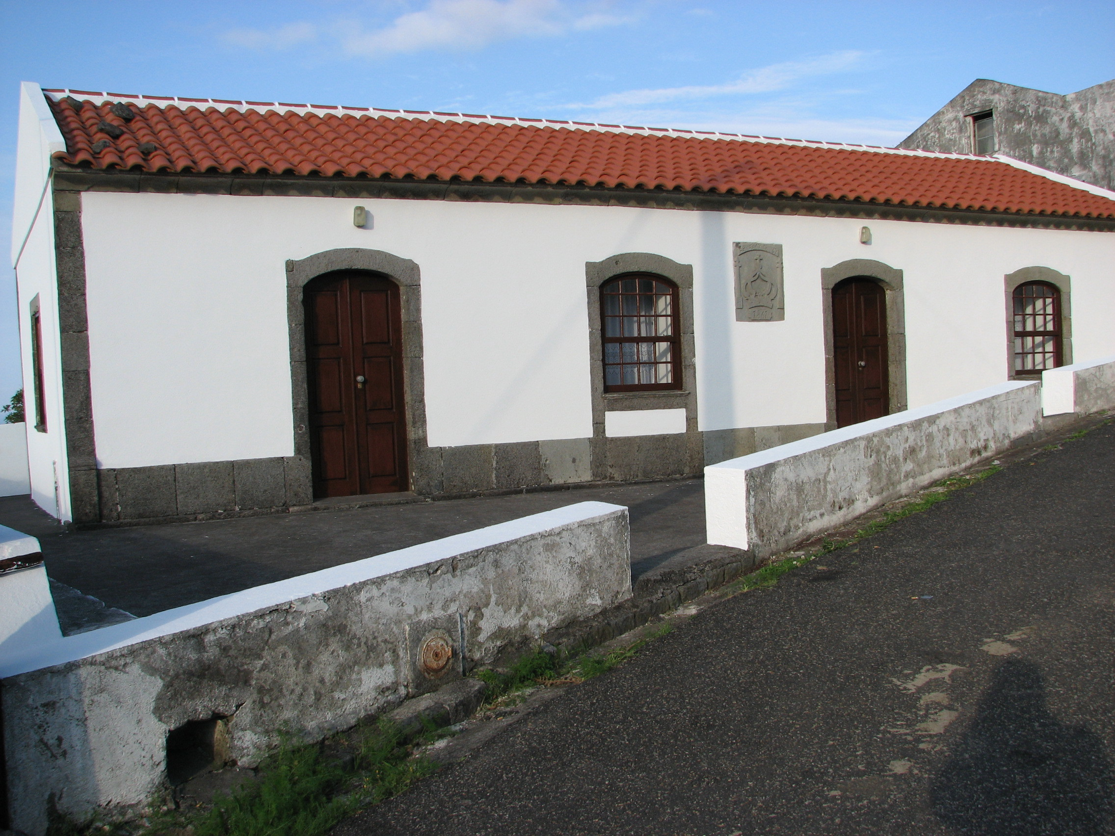 The Holly Ghost (Casa do espírito Santo de Baixo) house of Cedros, Flores, Azores.